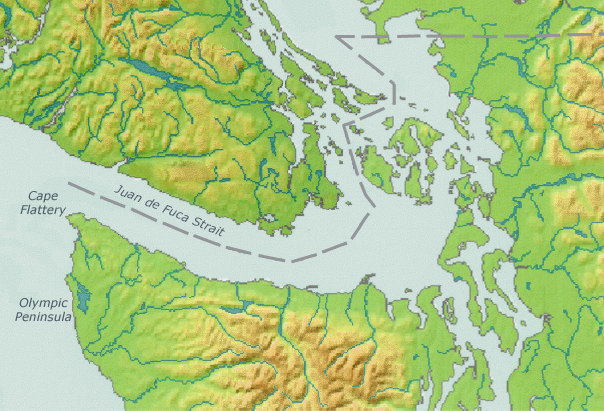 Unmarked relief map of Strait of Juan de Fuca and the Northern Puget Sound. (Based off this PD map.)